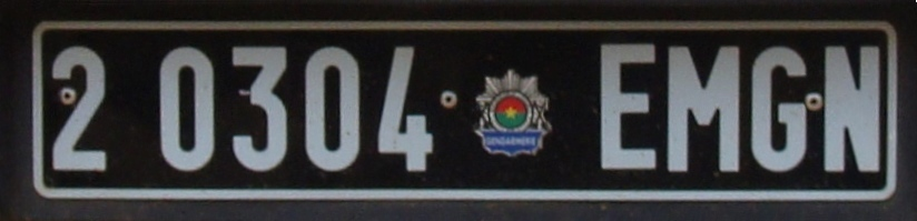 License plate for a Burkina Faso Gendarmerie vehicle assigned to the General Staff of the Gendarmerie